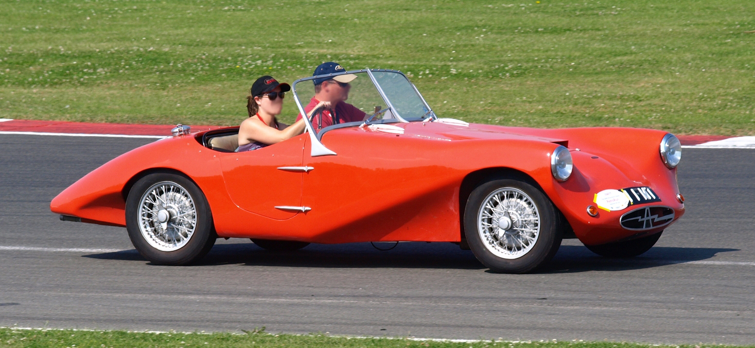 1955 Arnott Sports, entered at 1955 Le Mans (Jim Russell/ Peter Taylor, #45) where it crashed during practice. Fitted with original 1,100 cc Coventry Climax engine #FWA 6264 and Arnott supercharger. This car is unique for having a female constructor, Daphne Arnott.